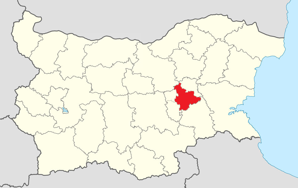 Location map of Sliven Municipality within Bulgaria and Sliven Province.